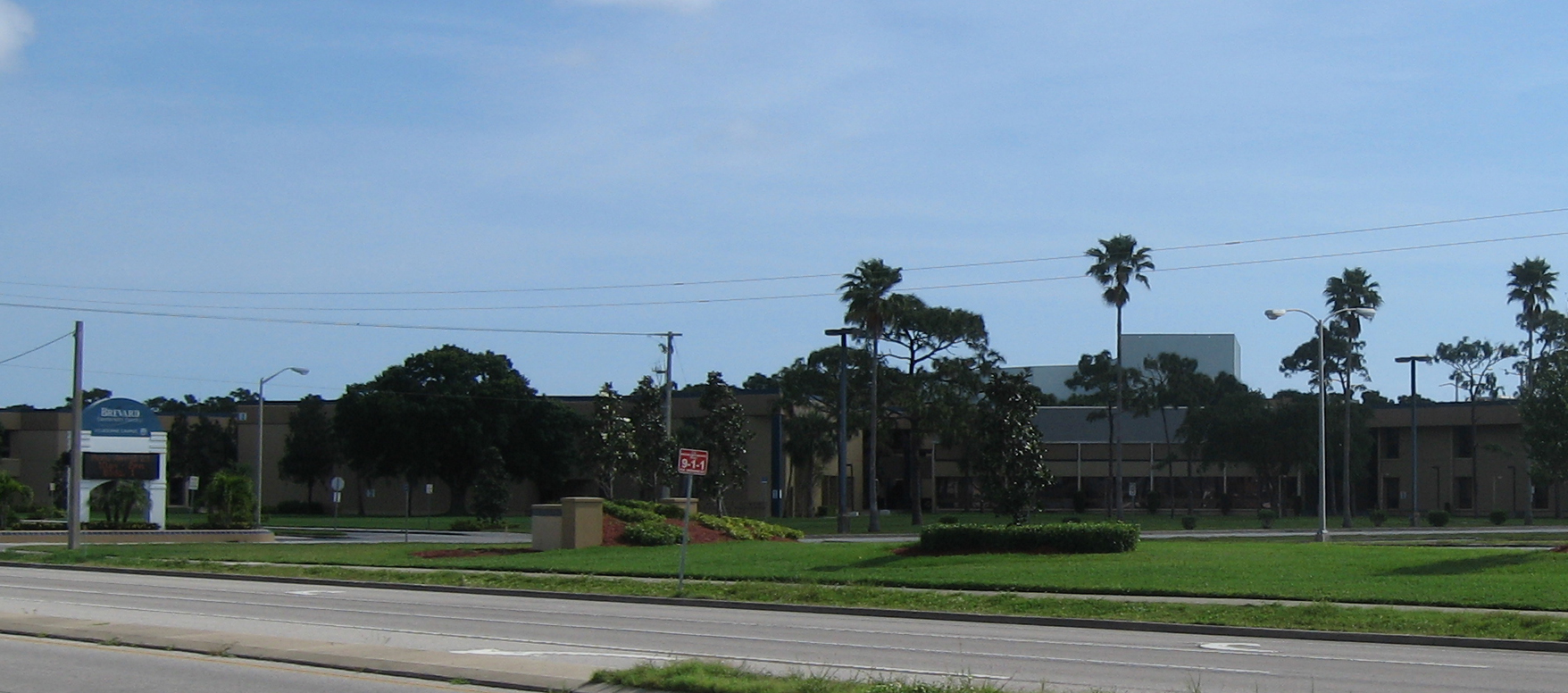 Brevard Community College Melbourne Campus in Melbourne, Florida, United States. Photograph taken from North Wickham Road facing east, showing the west side of the campus.